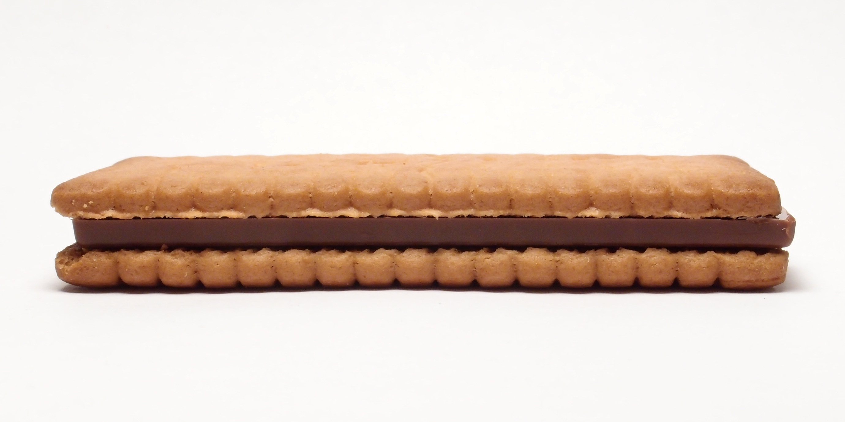 The Leibniz PiCK UP! bar, a bar-shaped biscuit sandwich with a solid chocolate centre made by German baking company Bahlsen under its Leibniz umbrella brand. This is the original, “classic” variety with two butter biscuits and a massive, unfilled milk chocolate centre.